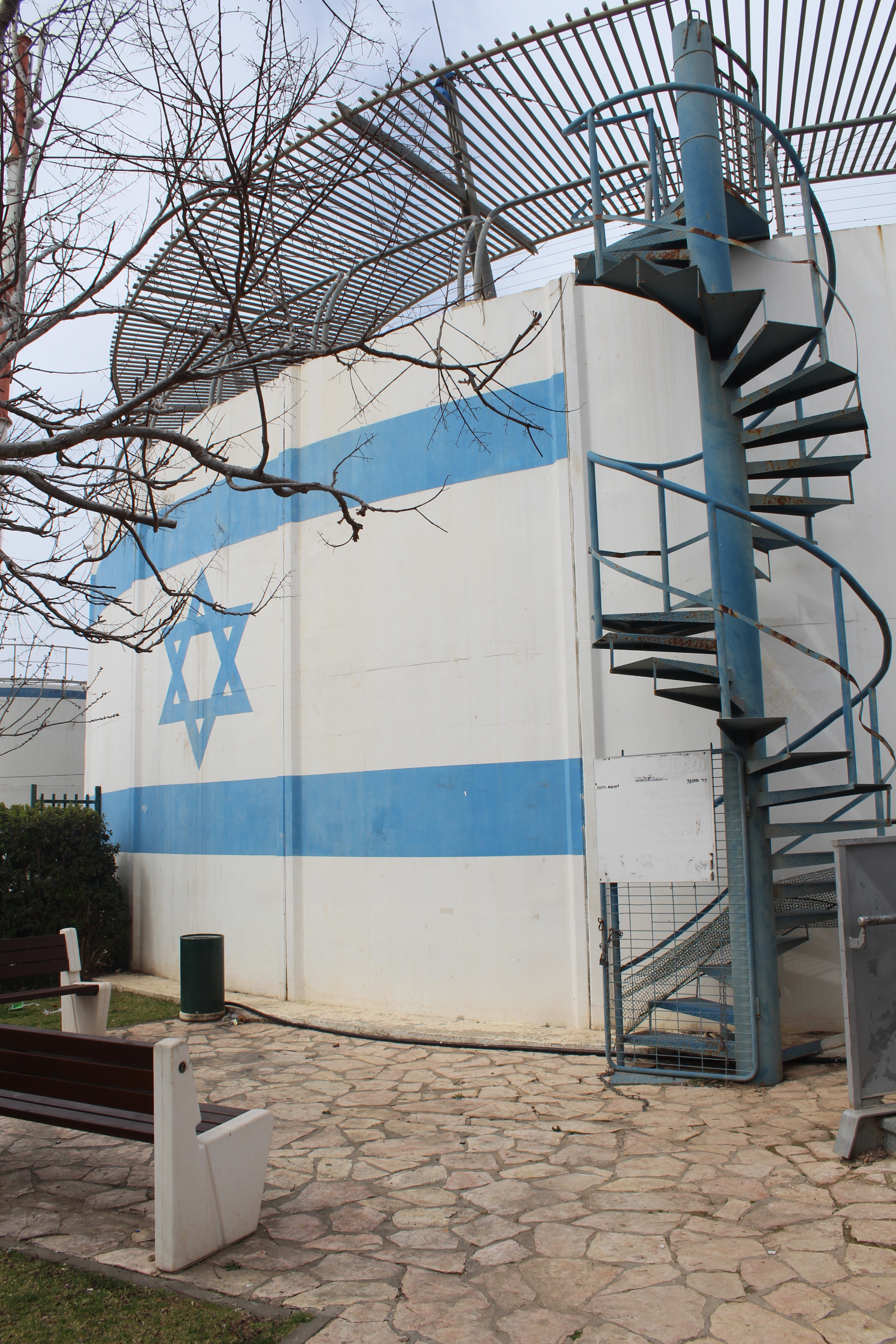 "Lift Your Eyes Observation Tower", top of Mount Beit El (Jabel Artis), overlooking the site of Jacob's dream, Beit El, occupied Palestine. This image was taken as part of the Elef Millim project trip to "Jacob's dream", in Bethel which was held on Friday, 17th March 2017. To view all images uploaded as part of the Elef Millim Project